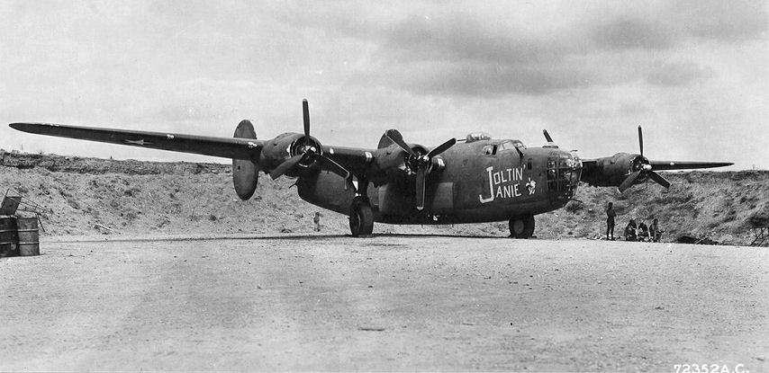 "Joltin' Janie" B-24D-30-CO Liberator s/n 42-40065 403rd Bombardment Squadron, 43rd Bombardment Group, 5th AF. Was originally a 90th Bombardment Group aircraft. Shown parked in a revetment at Dobodura Airfield on Papua,New Guinea on June 11,1943. Aircraft was lost on December 9,1943 when it crashed into the sea after take-off for a mission.